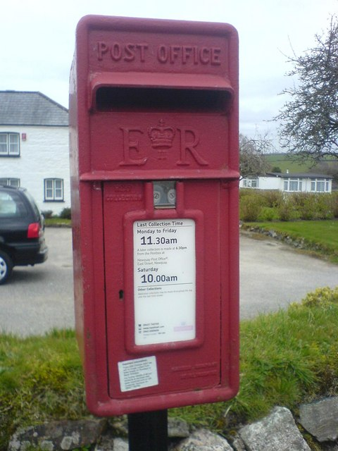 Tregatillian Post box (TR9 120 ) TR9 120 TR9 6 St Columb Major Lamp box SW 11.30 am ER II